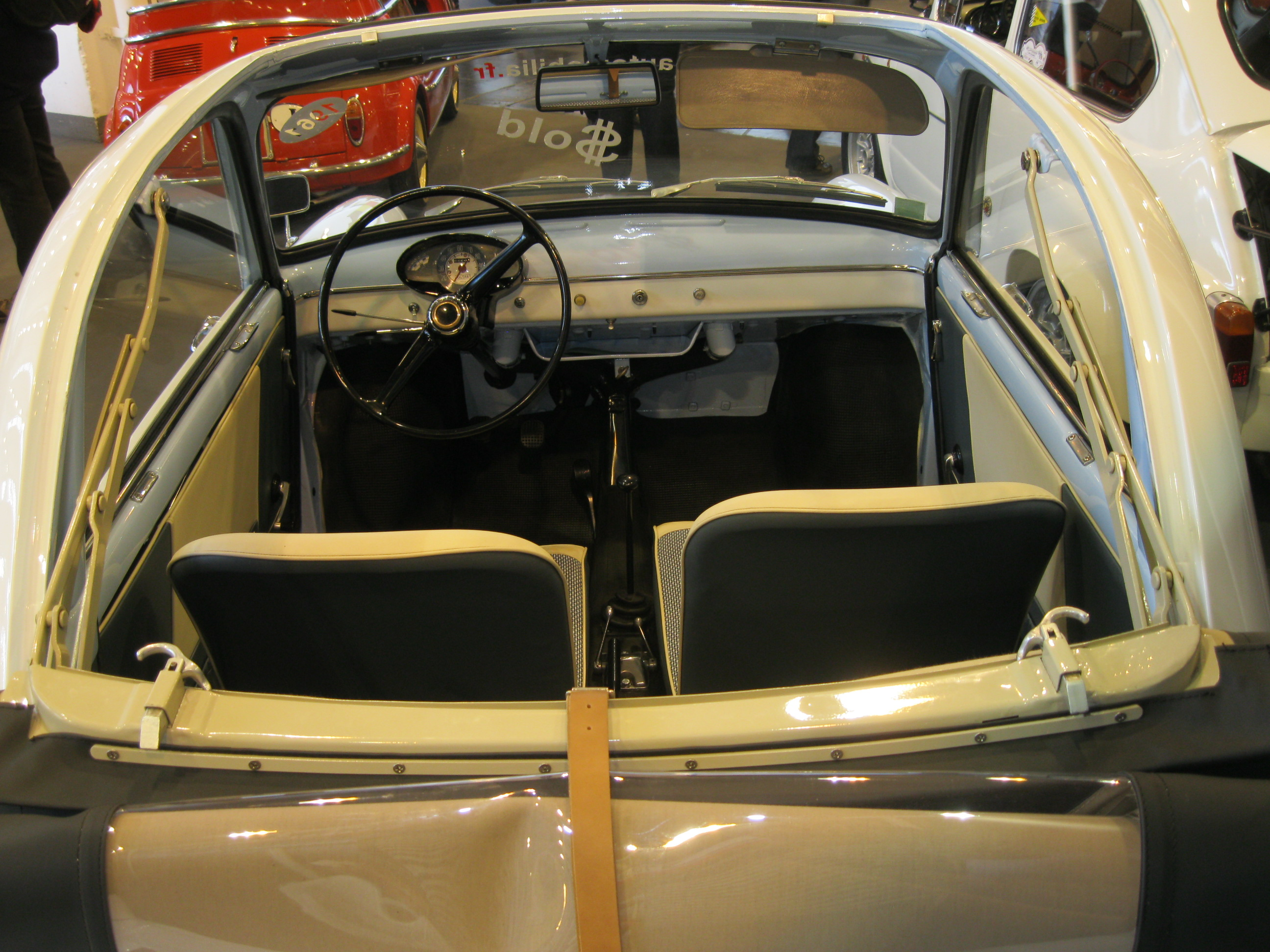 Delightful folding-roof version of this Fiat 500 derivative, spotted at Techno Classica Essen in March 2012.